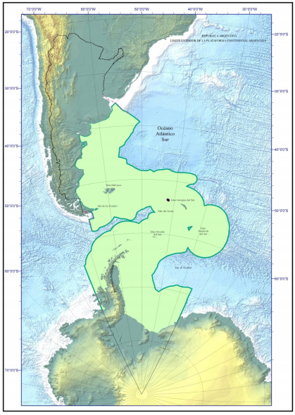 Map of the atlantic and antarctic territories as claimed by Argentina as of 2009